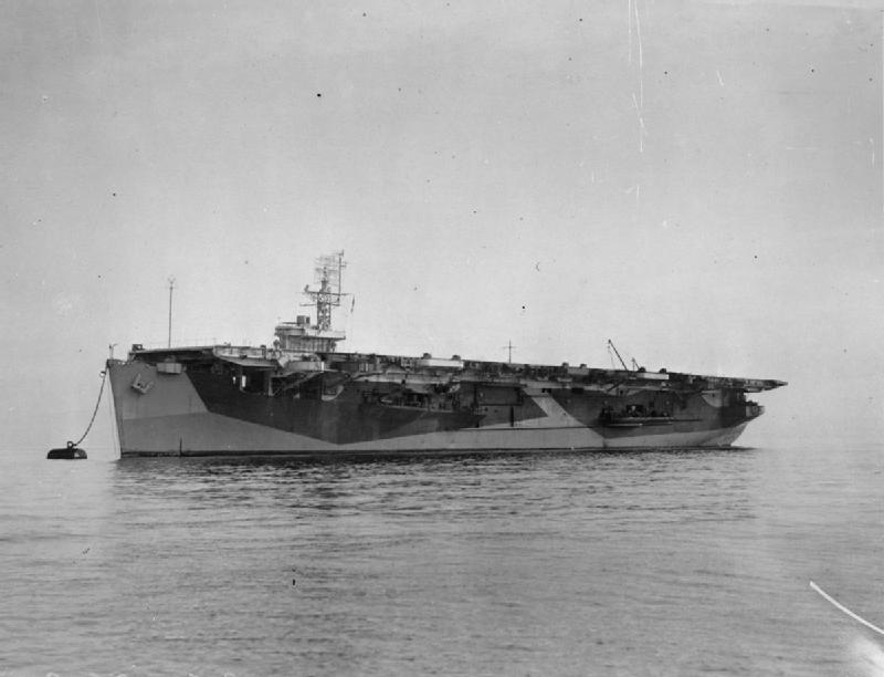 Royal Navy Ameer-class escort aircraft carrier HMS Reaper moored at Greenock